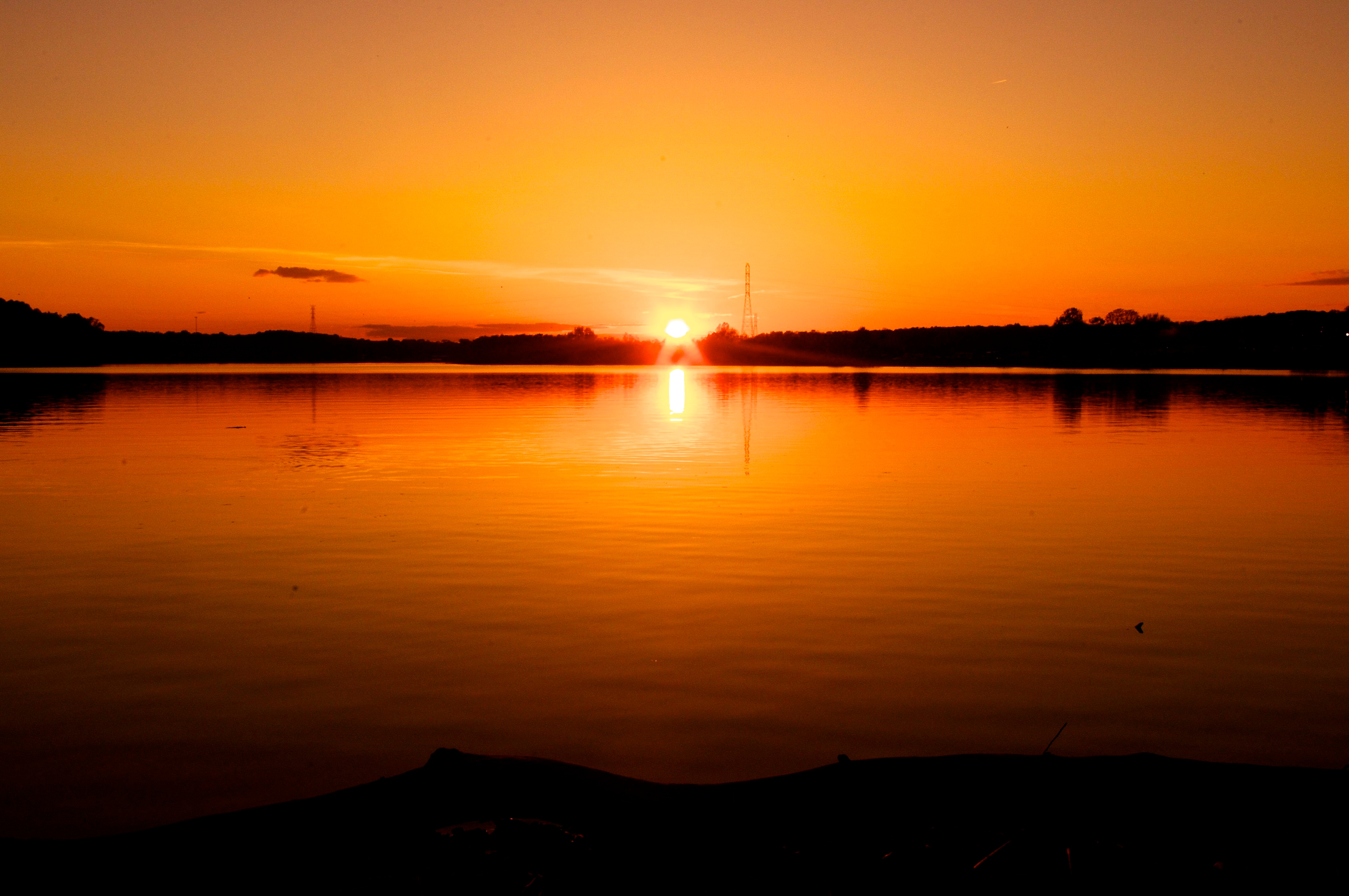 Sunset over Tims Ford Lake at Winchester, Tennessee, United States. This view is from the shoreline adjacent to the State Route 130 bridge.